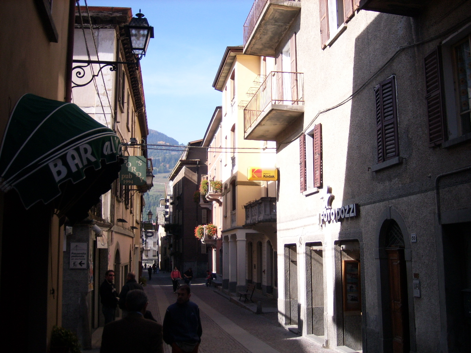 Street in Bormio, Italy